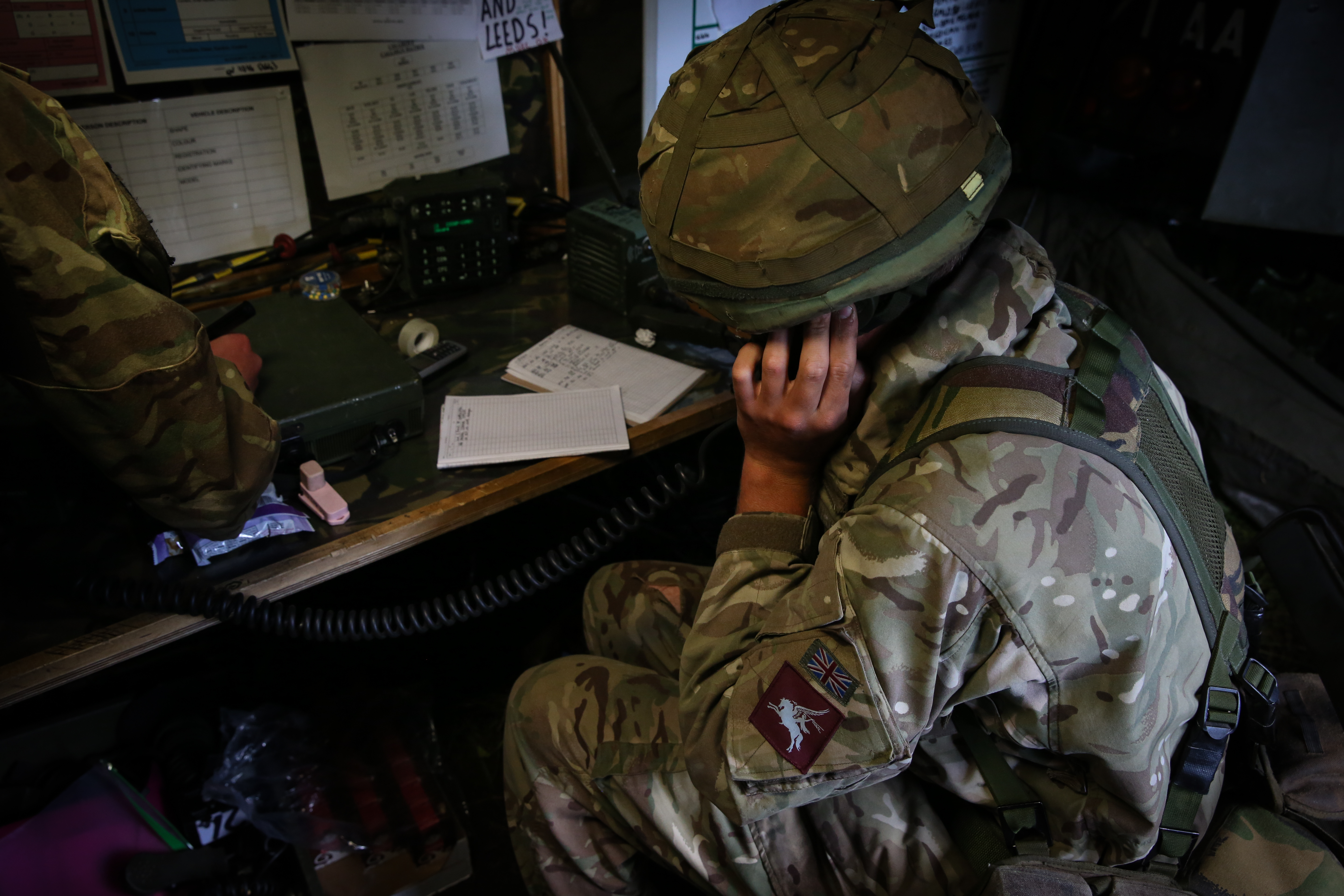 A British soldier of Airborne Combined Joint Expeditionary Force transmits information on a radio while conducting tactical operations during Swift Response 16 training exercise at the Hohenfels Training Area, a part of the Joint Multinational Readiness Center, in Hohenfels, Germany, Jun. 22, 2016. Exercise Swift Response is one of the premier military crisis response training events for multi-national airborne forces in the world. The exercise is designed to enhance the readiness of the combat core of the U.S. Global Response Force – currently the 82nd Airborne Division’s 1st Brigade Combat Team – to conduct rapid-response, joint-forcible entry and follow-on operations alongside Allied high-readiness forces in Europe. Swift Response 16 includes more than 5,000 Soldiers and Airmen from Belgium, France, Germany, Great Britain, Italy, the Netherlands, Poland, Portugal, Spain and the United States and takes place in Poland and Germany, May 27-June 26, 2016. (U.S. Army photo by Spc. Lloyd Villanueva/Released) Unit: VIPER COMBAT CAMERA USAREUR